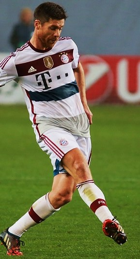 Xabi Alonso